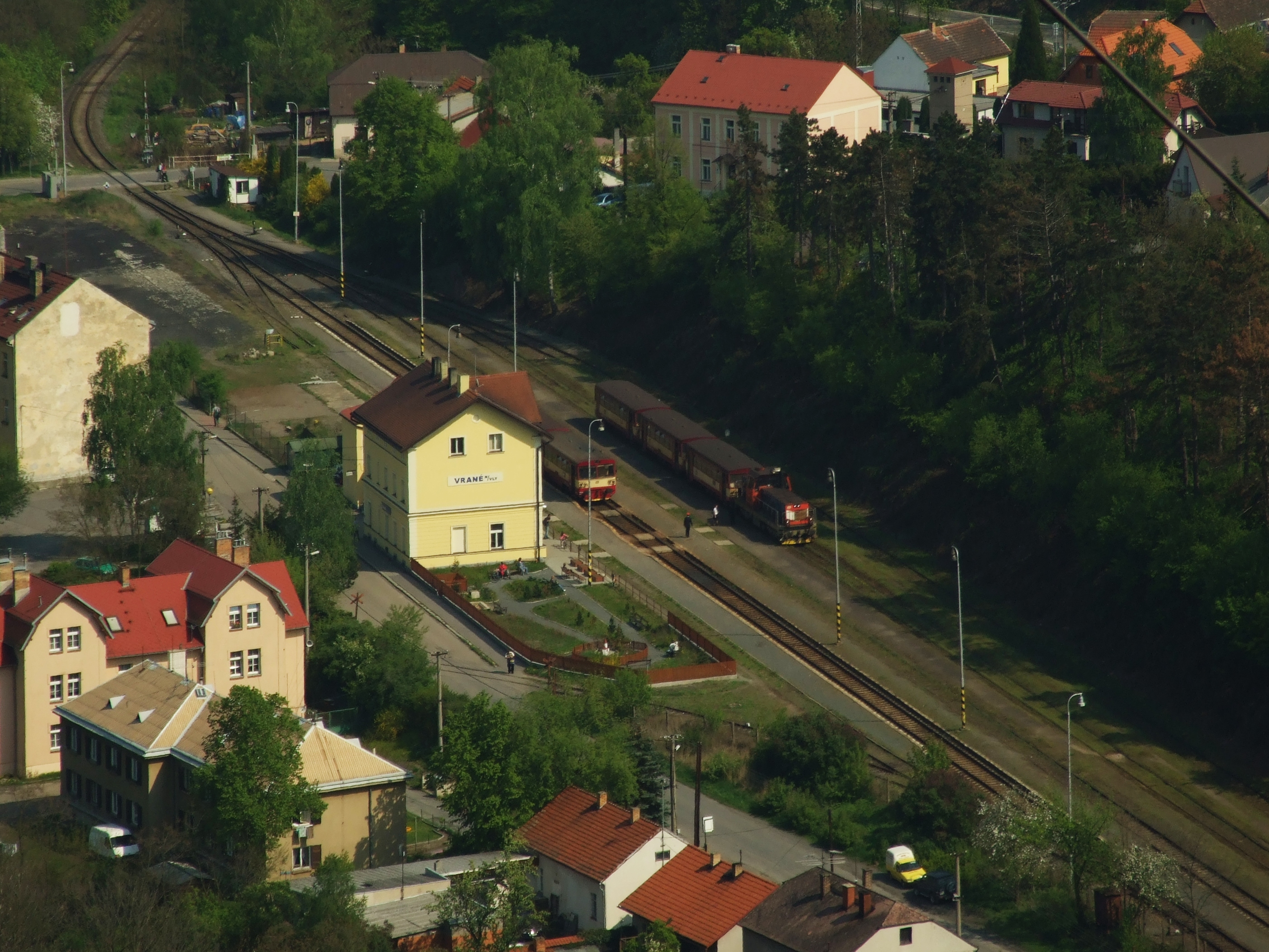 Vrané nad Vltavou taken from Nad Strnady area near Cukrák, southern edge of Prague and northern edge of Brdy hills in Central Bohemian region, CZhelp